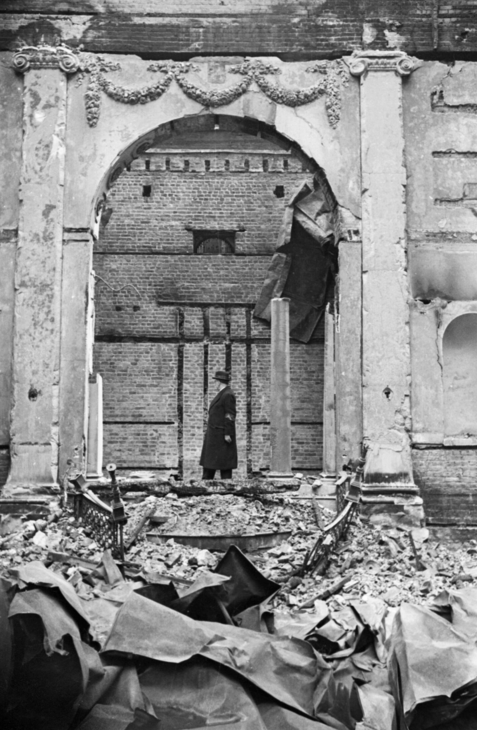 The Great Synagogue After 250 Years, Dukes Place, London, 1941 Reverend Hermann Mayerowitsch stands under the decorated arch of the Ark of the Great Synagogue which still stands proudly amidst rubble and debris, following a devastating air raid which occurred on the evening of Saturday 10 May 1941. All that is left of the rest of the synagogue is a roofless shell.